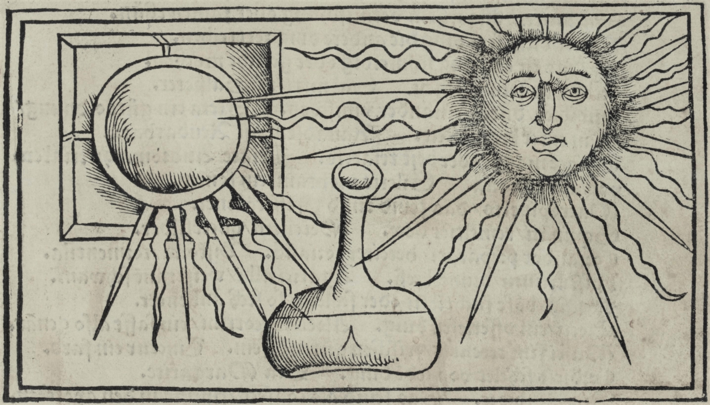 Title page from Celum philosophorum: heimliheit der naturen genant dis buchlin [...] Darin herfür bracht, wie man die rechten kunst, und Quinta Essentia, distillieren. Und den schatz Aurum potabili. Gold in ein trinklich wesen bring, zum und artznei, menschlichem leben hilfflich ir leib in gesuntheit zumbehalten Auchzum teil dienend Alchamei. Auch angehenkt, etliche usszüg und leren von Marsilio Ficino, die er dan selber gebraucht, und rüwigs alters. 120. iar alt worden / [...] neulich in latein coligiert von dem wohlgelehrtem Ulstadius von Niereinberg und jetz in teutsch getruckt [...] (by Philippus Ulstadius, Strassburg, Johannes Grienynger, 1527).